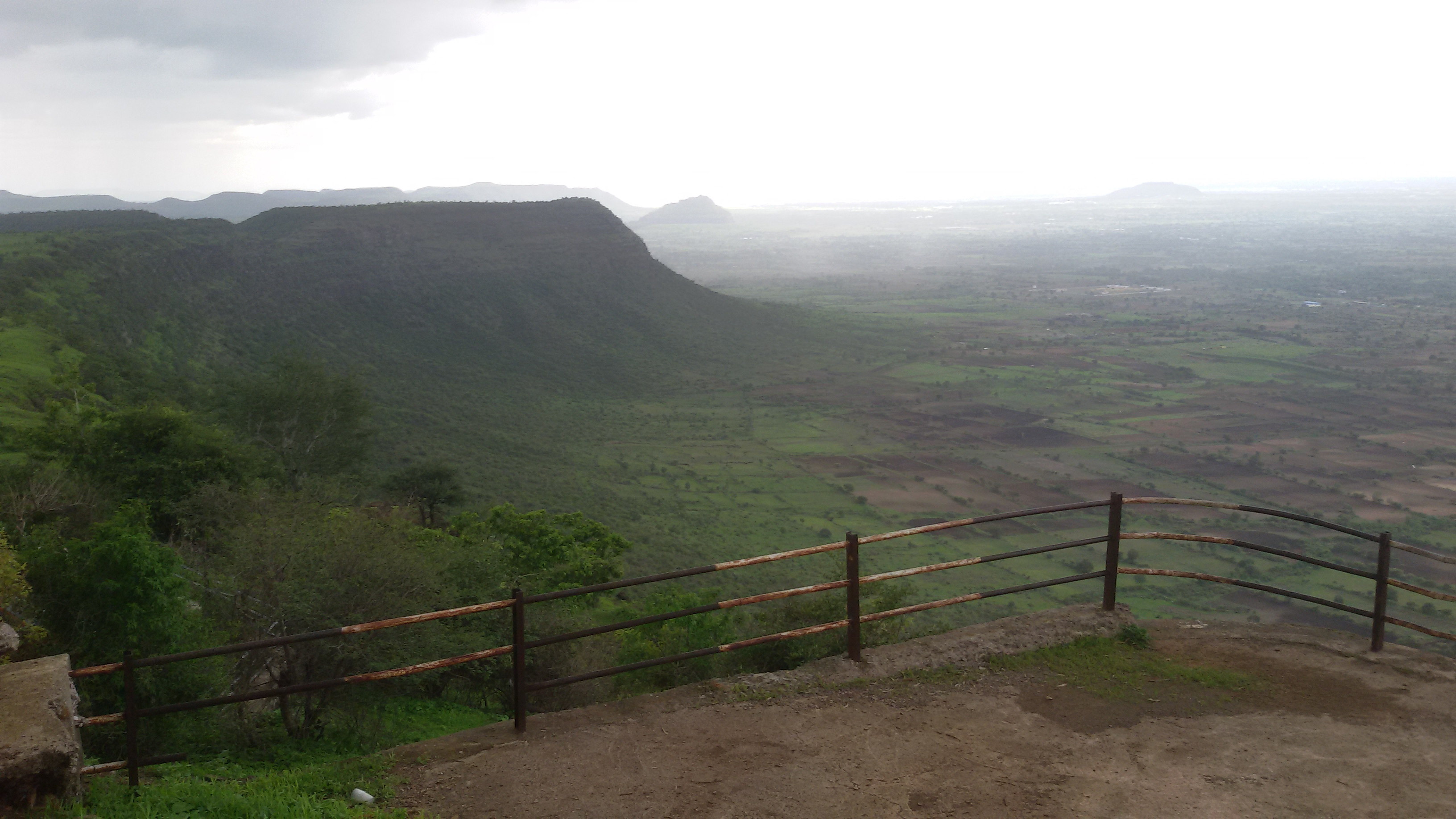 This place is suited in Sulibhanjan which is Aurangabad district of maharashtra state. This place is also religious because there is tepple of lord datta. Sulibhanjan is just 7 to 10km away from Ellora Caves.